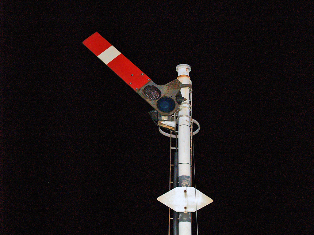 Castleton East Junction signal box 35 signal (Down Main Home 2). Sunday 25th May 2008